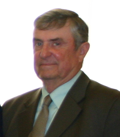 Bob Bunting, Mayor of Ozark, Alabama